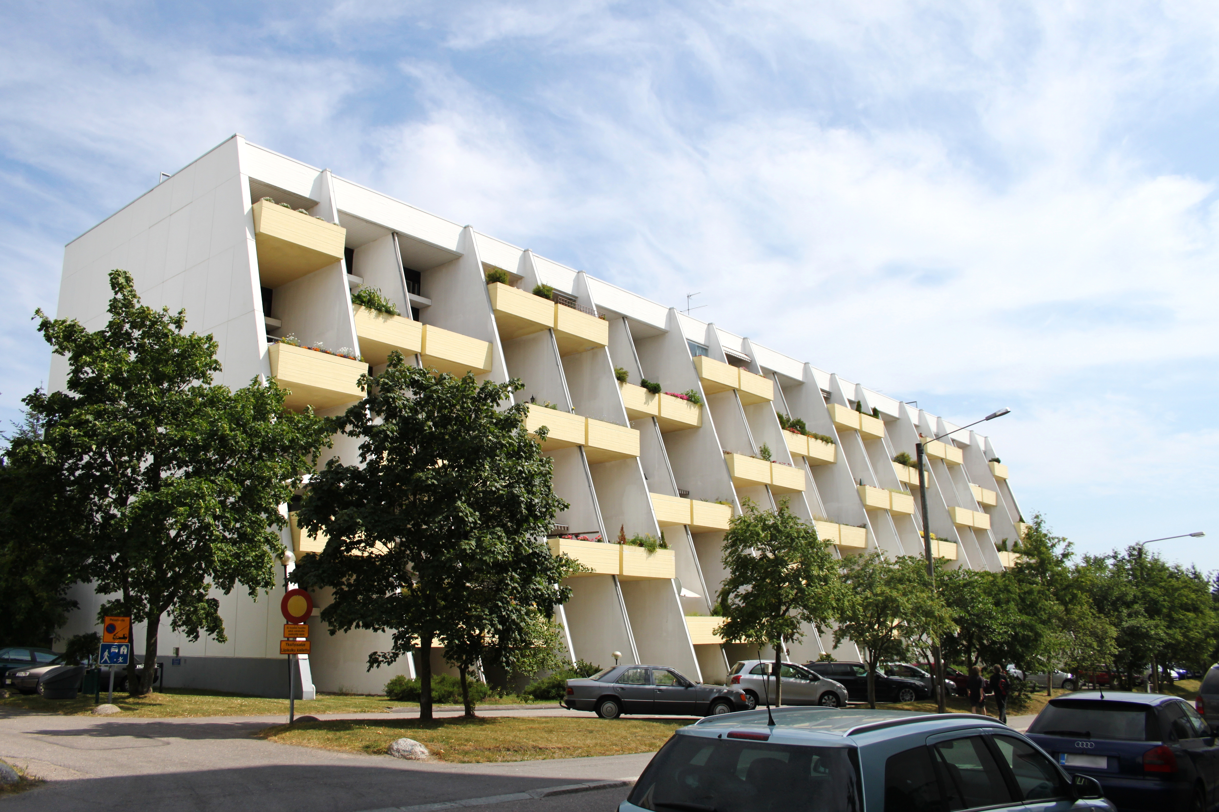 "Terrace building" in Ulappasaarentie, Vuosaari, Helsinki.